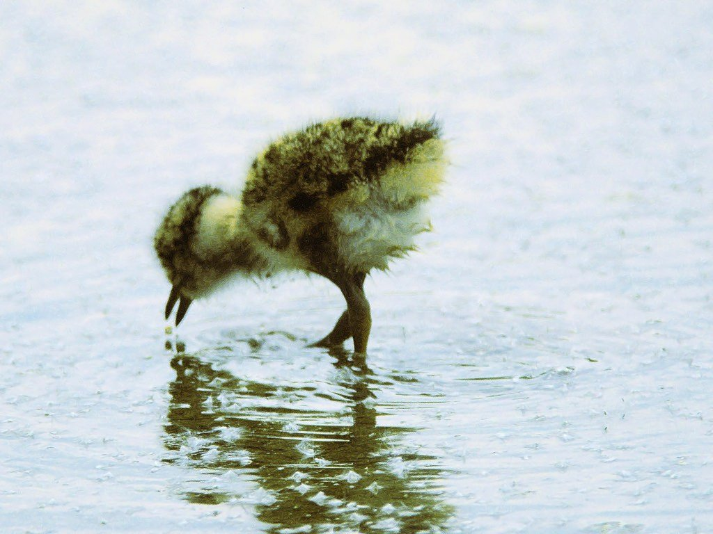 I think this is a lapwing chick, AKA green plover, northern lapwing, or peewit, according to Wikipedia . Seems to be trying to eat something. Taken at Washington WWT . D90, tamron 55b 500mm mirror lens with the 01F 2x converter. Focus problems are obvious but somehow seem to suit the fluffy little subject.. :) Some pp in gimp and xv.